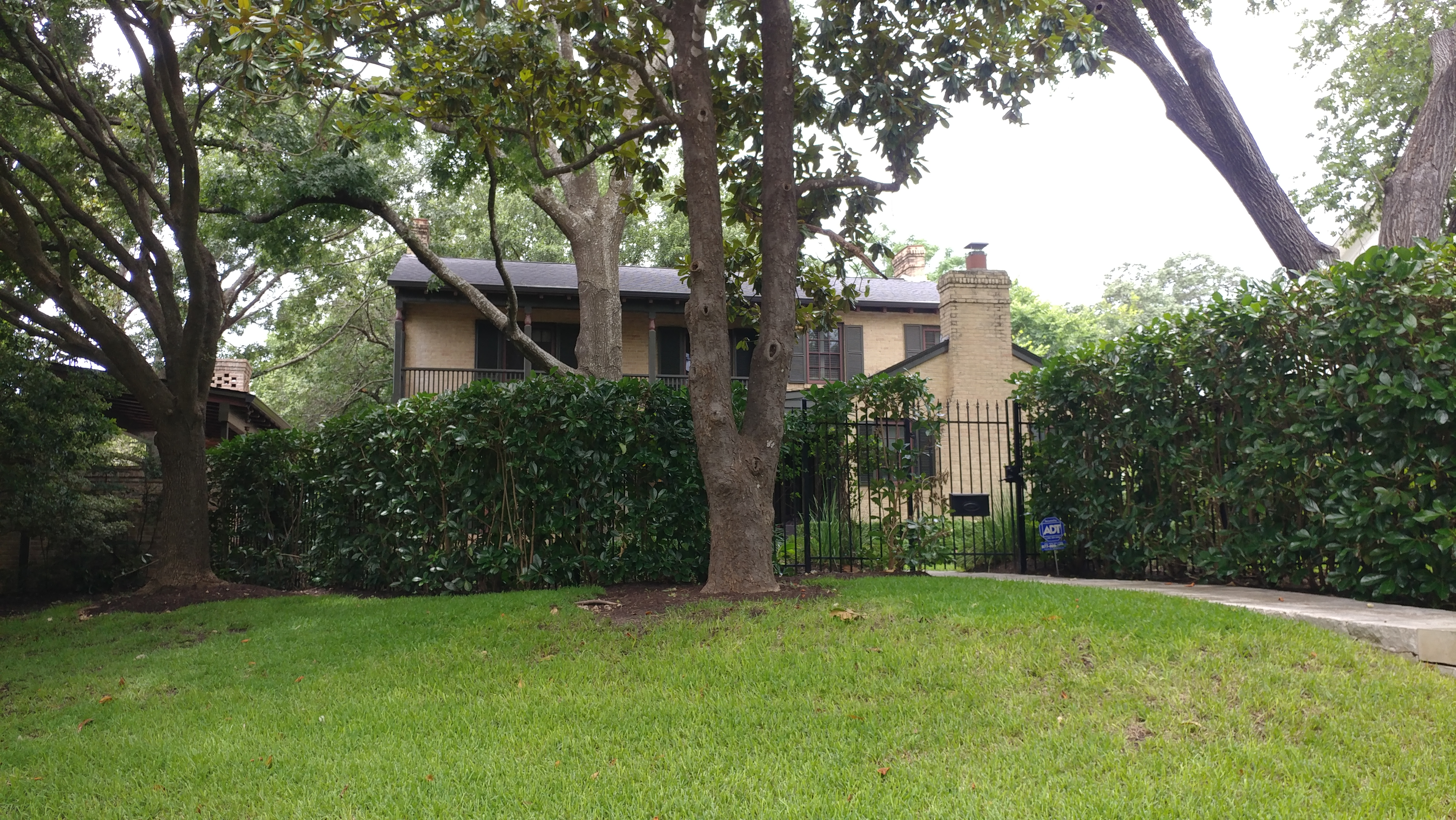 View from the street of the historic Keith house in Austin, Texas in 2019.